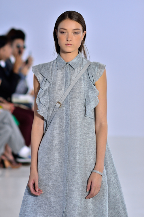 Model Yumi Lambert walking in the Philosophy by Natalie Ratabesi Spring/Summer 2014 fashion show on September 11, 2013 at New York Fashion Week. Photo by Christopher Macsurak.